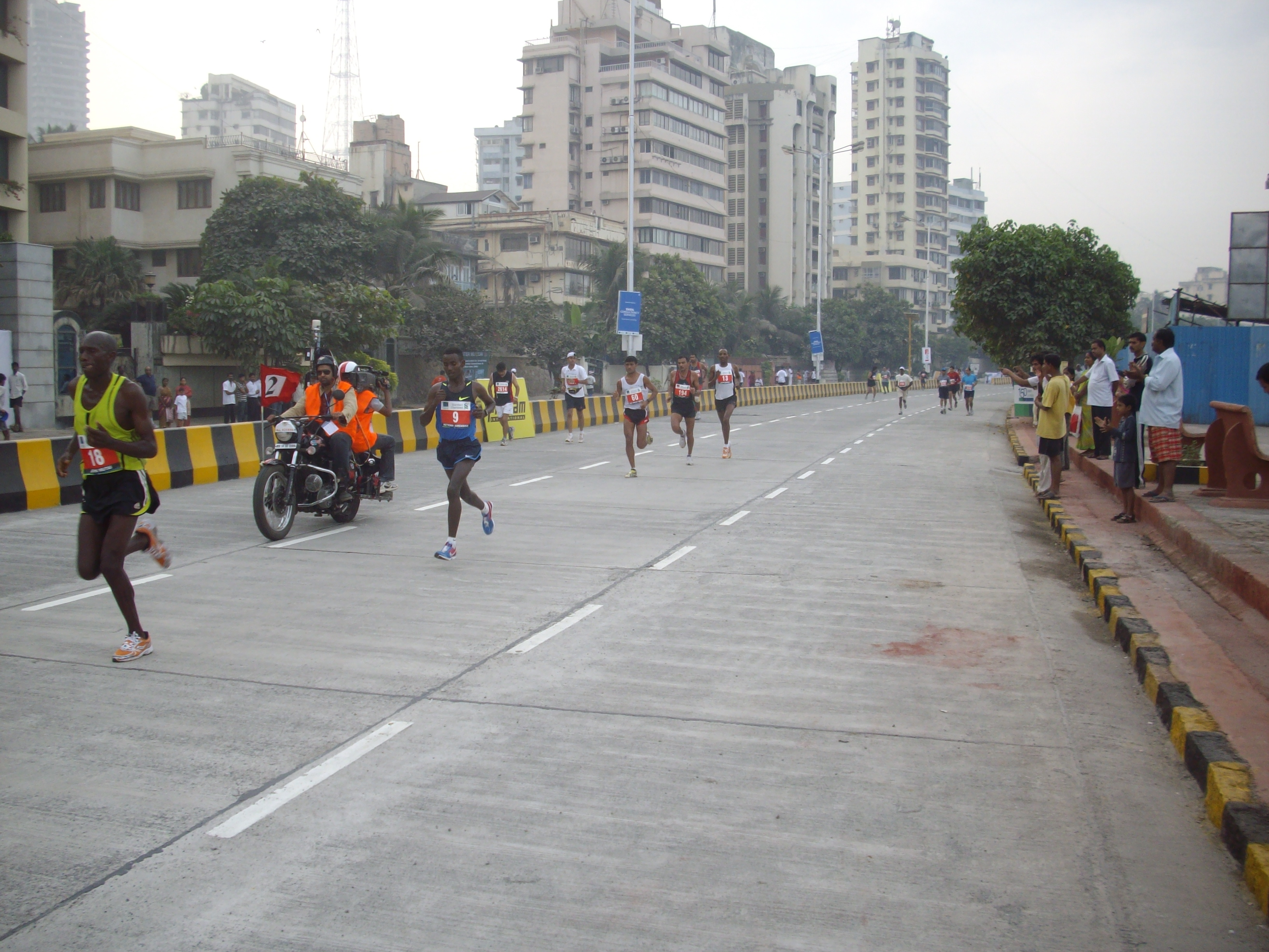 International competition in the "Mumbai Marathon-2009".